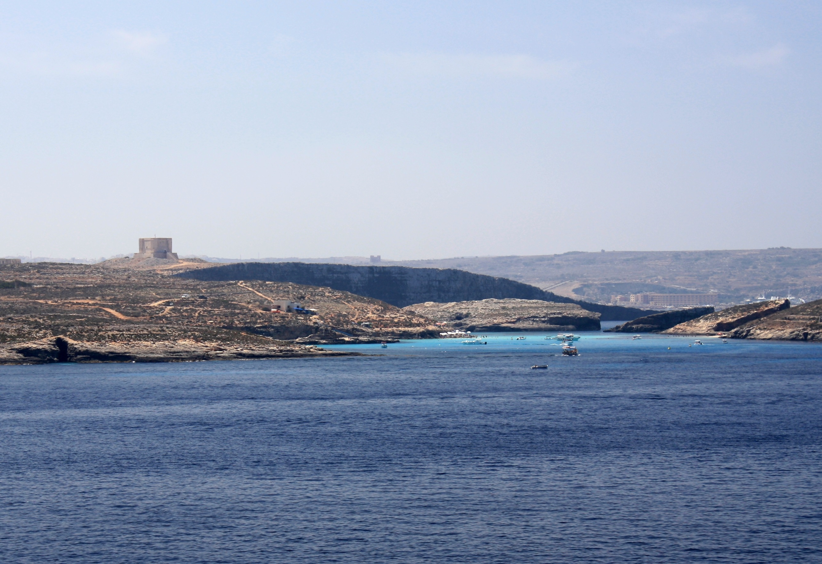 View from Gozo to Comino with Santa Marija Tower.